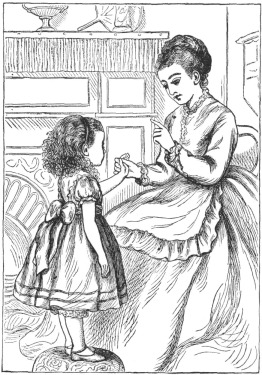 (Removed after reusableart request.)